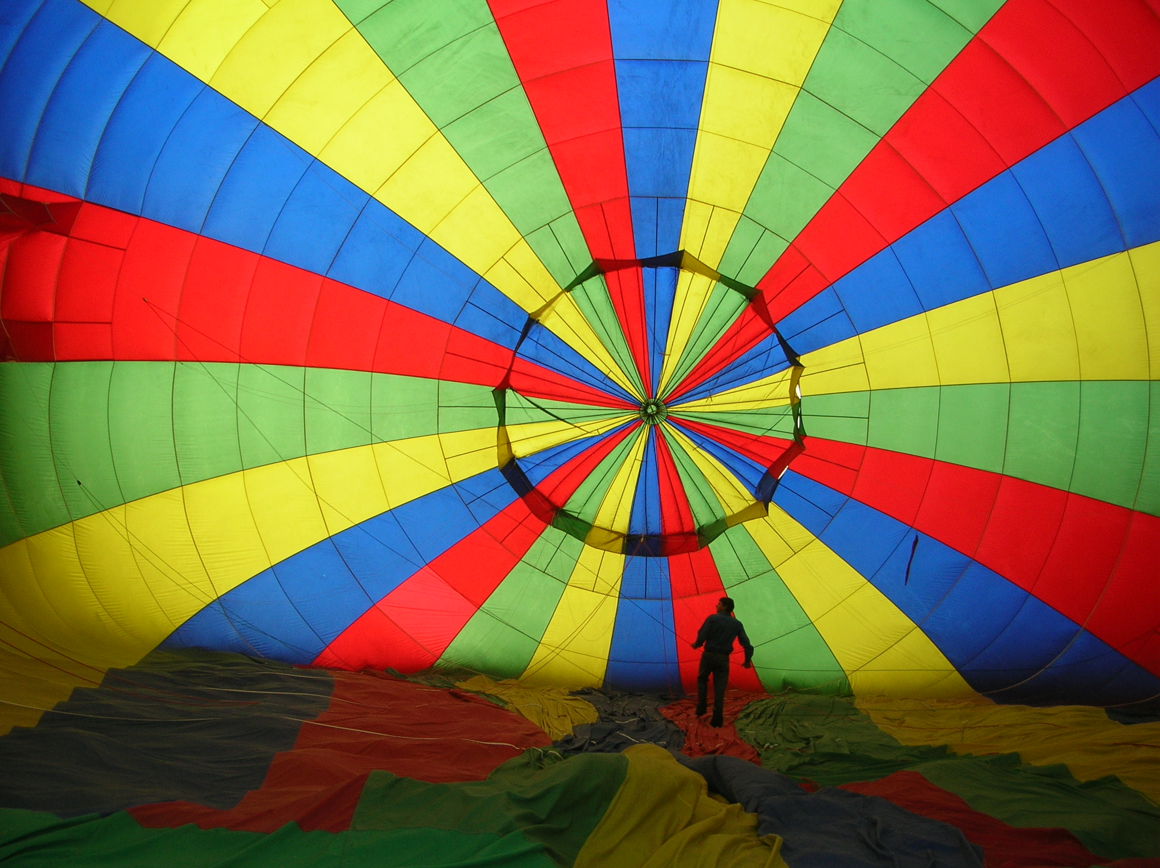 Inside of a hot air balloon